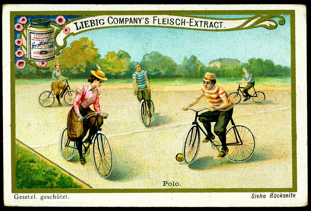 D - Collectible card of Liebig's Extract of Meat Company, bike polo (cycle polo)